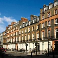 Hult London